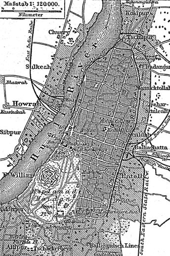 1888 German map of Kolkata